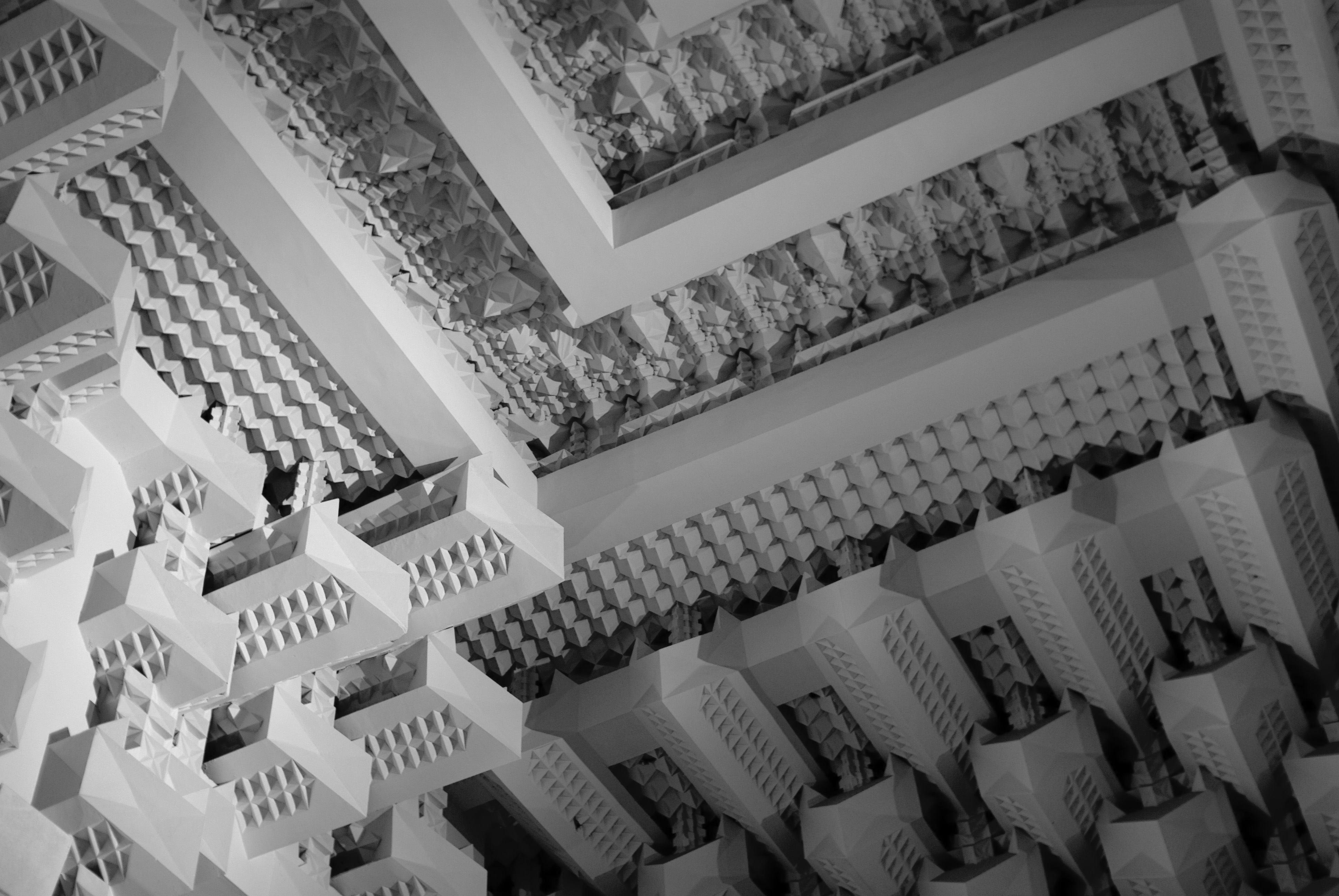 Detail of the ceiling of the Capitol Theatre, Melbourne, showing the upper left corner. Only four of the many built-in ceiling lights are turned on, the primary lighting is an orange floodlight on the theatre floor at house left (though this photograph is in black and white).